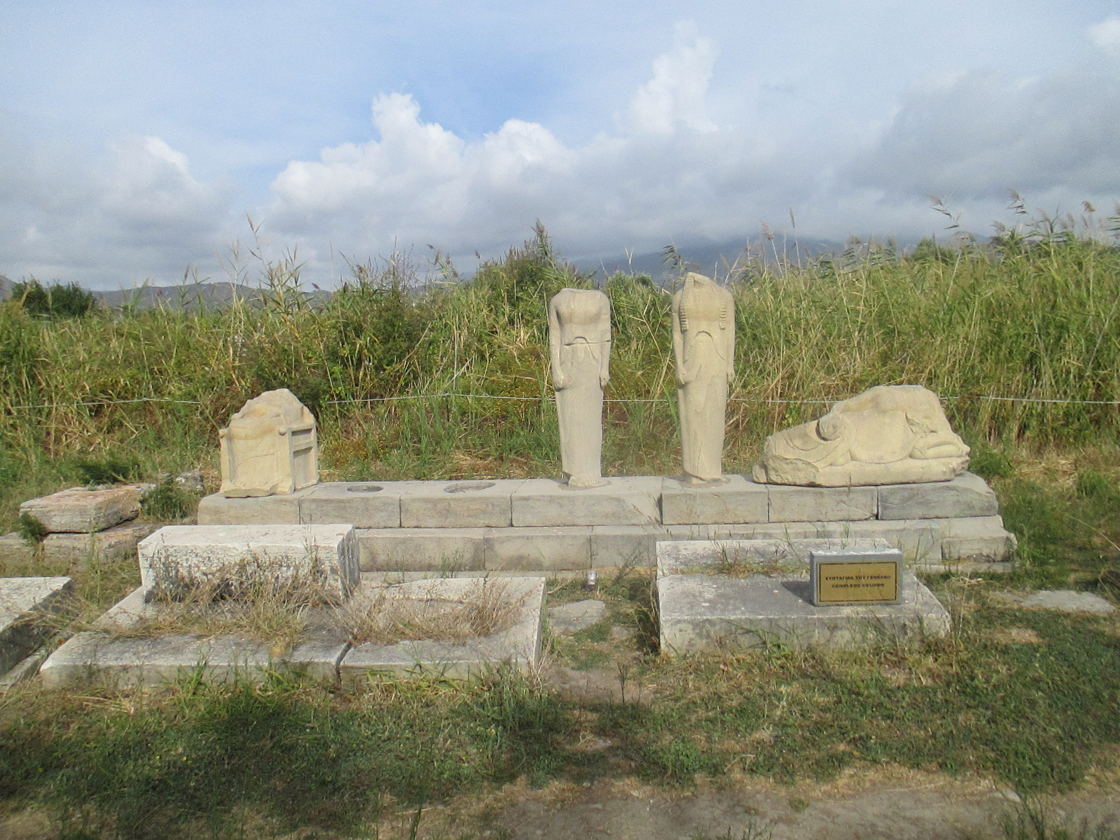 Heraion of Samos. Geneleos (Genelaos) group.